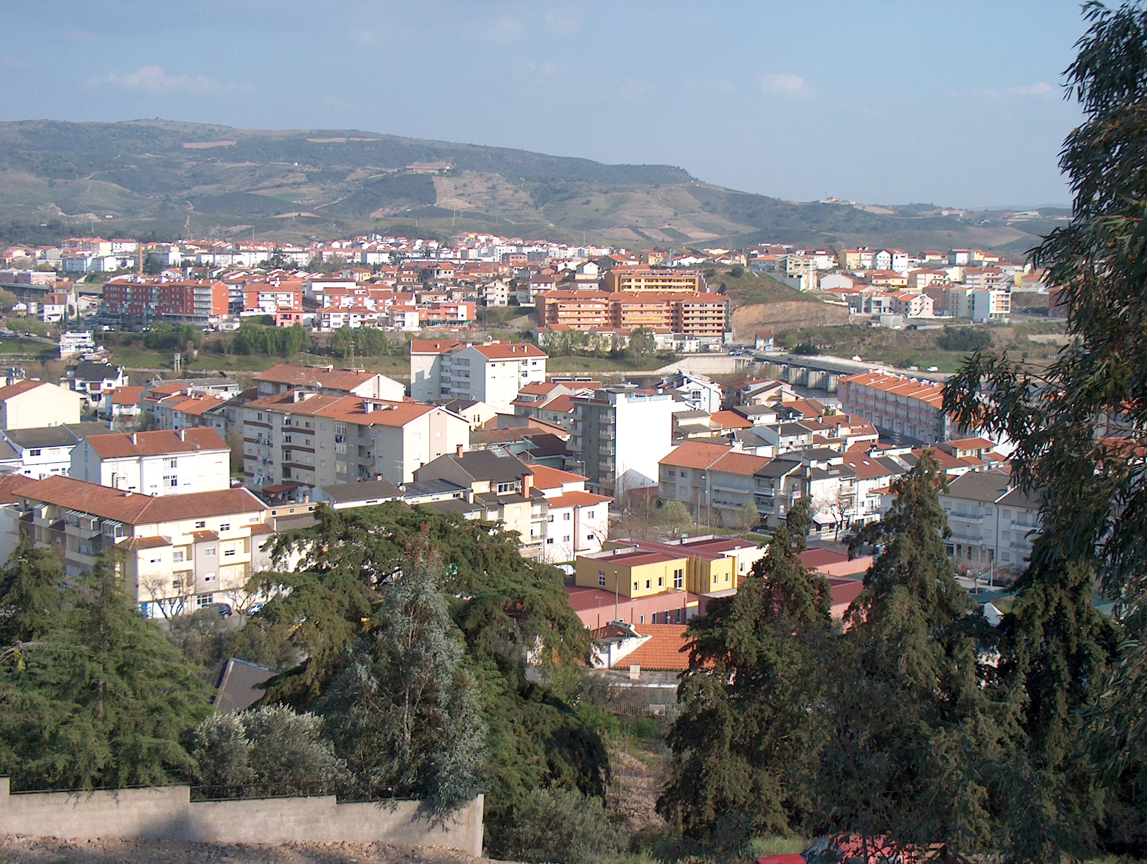 picture taken by User:Husond